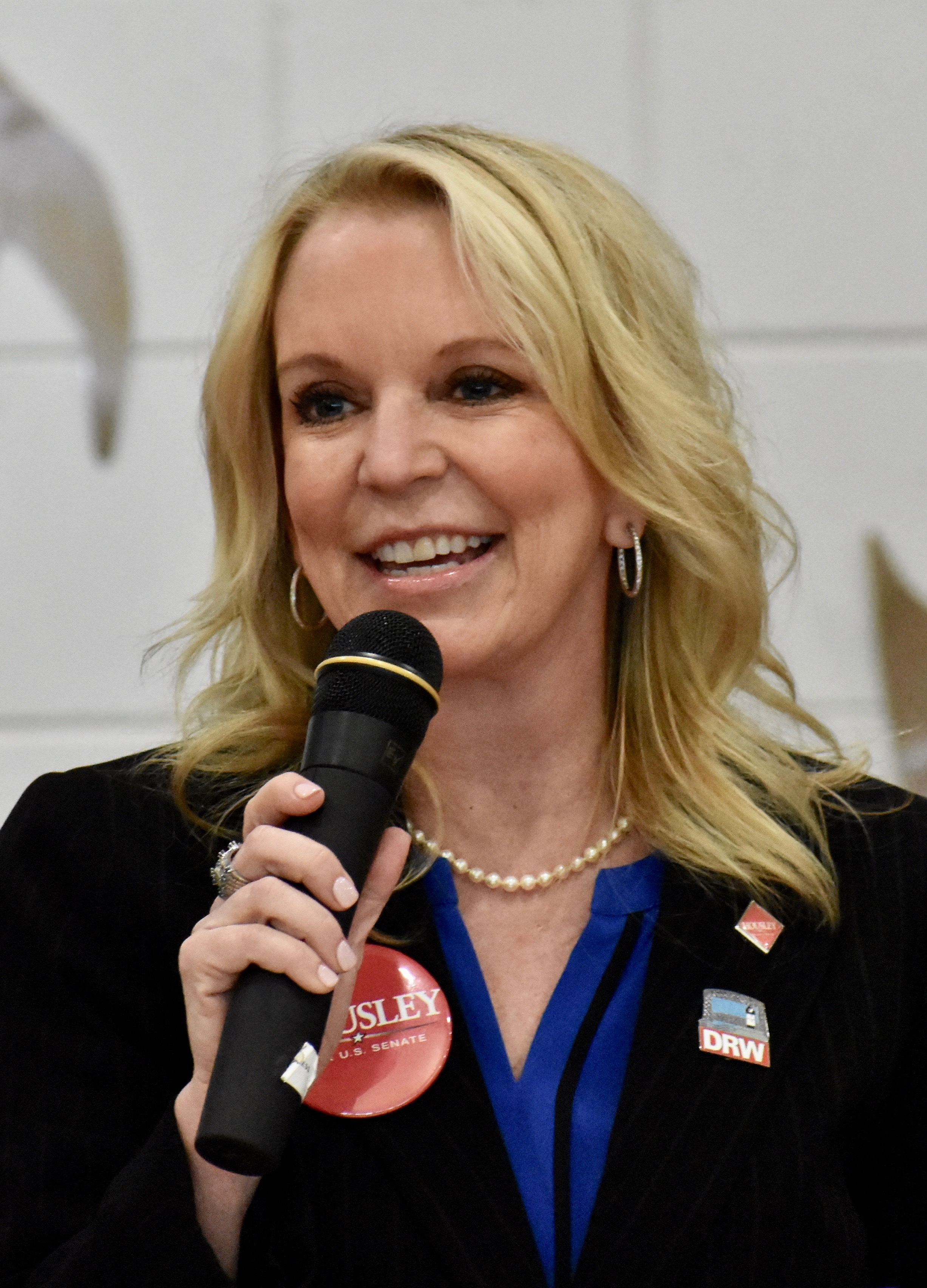 Candidate for the U.S. Senate Karin Housley (R) speaking at Minnesota's 8th Congressional District nomination convention in Park Rapids.